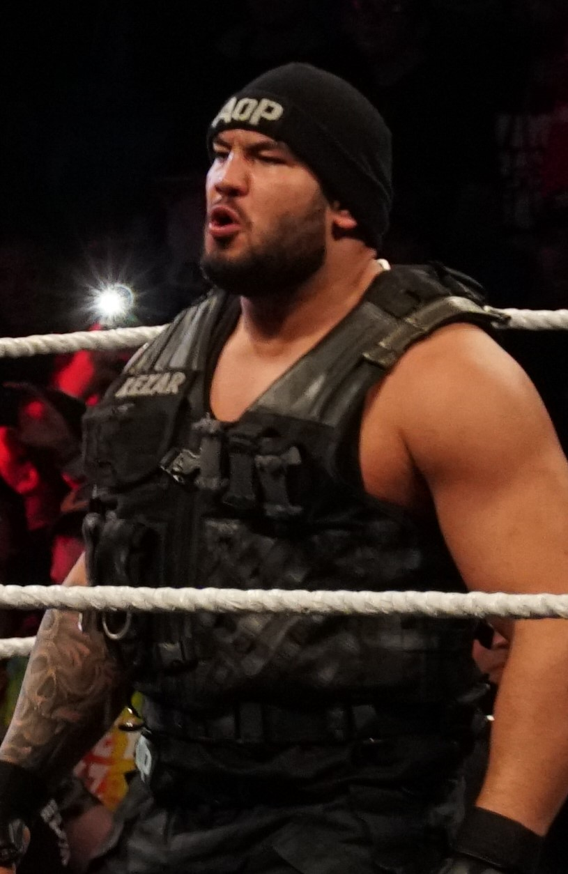 Akam and Rezar in the ring at NXT TakeOver: New Orleans in April 2018.